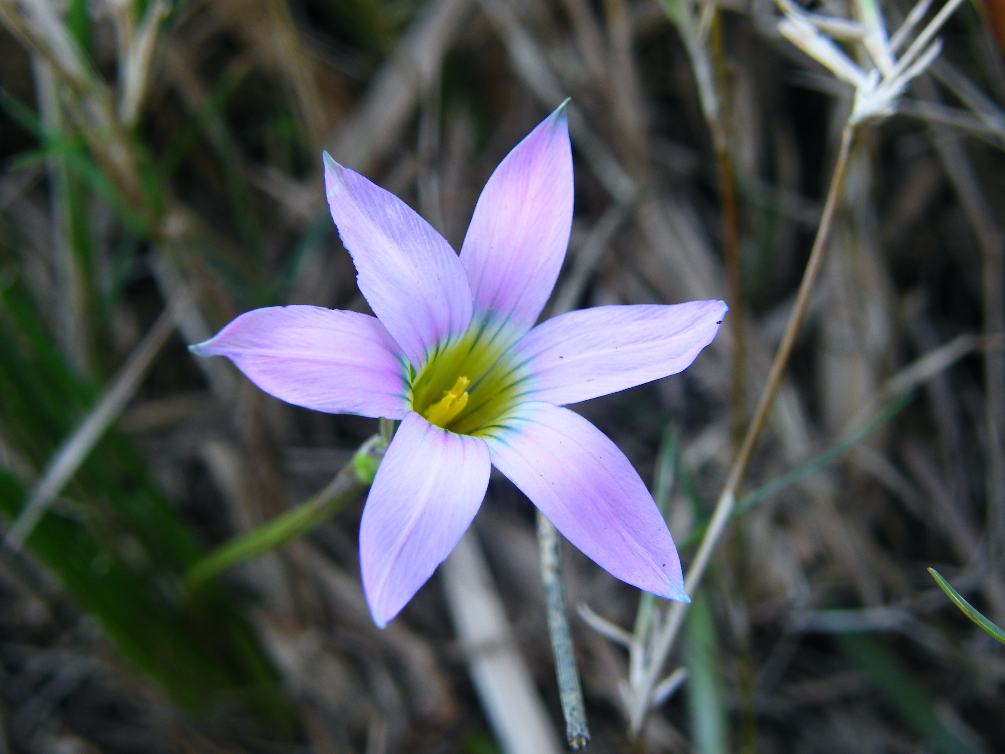 Romulea tabularis